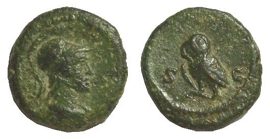 An anonymous quadrans (supposedly of the reign of Domitianus) with the helmeted Mars (obv.) and owl (rev.)